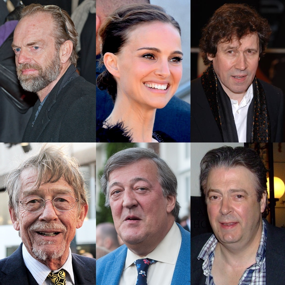 Core cast of the film V for Vendetta: Hugo Weaving, Natalie Portman, Stephen Rea, John Hurt, Stephen Fry and Roger Allam.